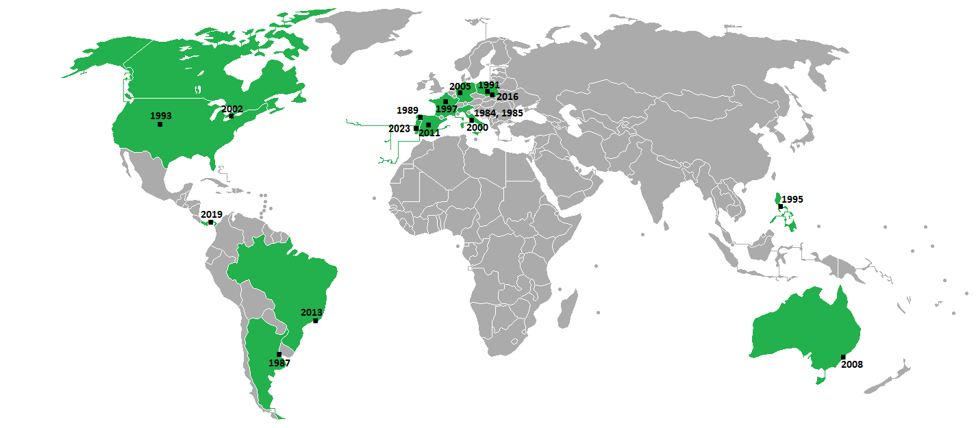 Map of World Youth Day locations. Countries that have hosted at least one WYD are shaded green.